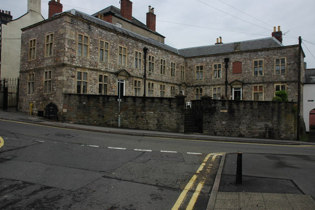 Powis Almshouses, Chepstow The recently restored red engraved plaque reads: 'THIS ALMS-HOUSE was Erected and Endowed ANNO DOM: 1710 By the sole Charity of THOMAS POWIS late of ENFIELD in the County of Middlesex Vinter. A Native of this Town: For the Reception and Maintenance of Six Poor Men and Six Poor Women. Inhabitants of this Town And Parish For-ever'. Complete with unorthodox letter case.